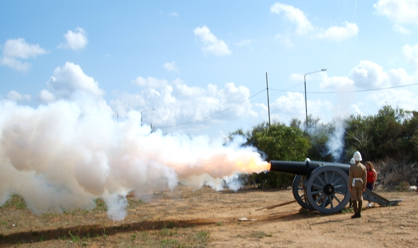 RML 8 inch 70 cwt howitzer at Fort Rinella in Malta being fired.